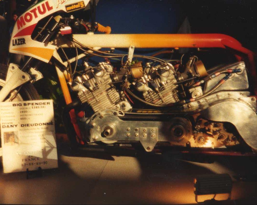 « Big Spender » dragster driven by french woman pilot Dany Dieudonné. Motorization: bimotor 4 cylinder Kawasaki 2 x 1 297 cm³, 600 hp, nitromethan fuel. Bought in Zandvoort to Henk Vinck in 1986 through a tombola. Photo taken at the Salon de la Moto in Paris, year 1990.